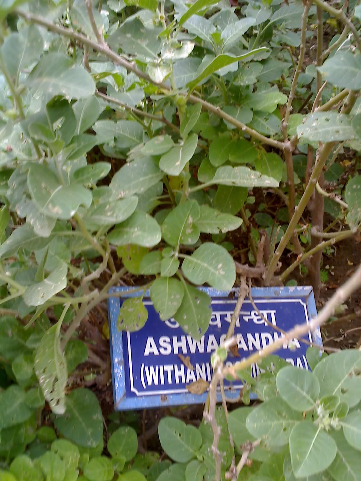 Ashwagandha plant